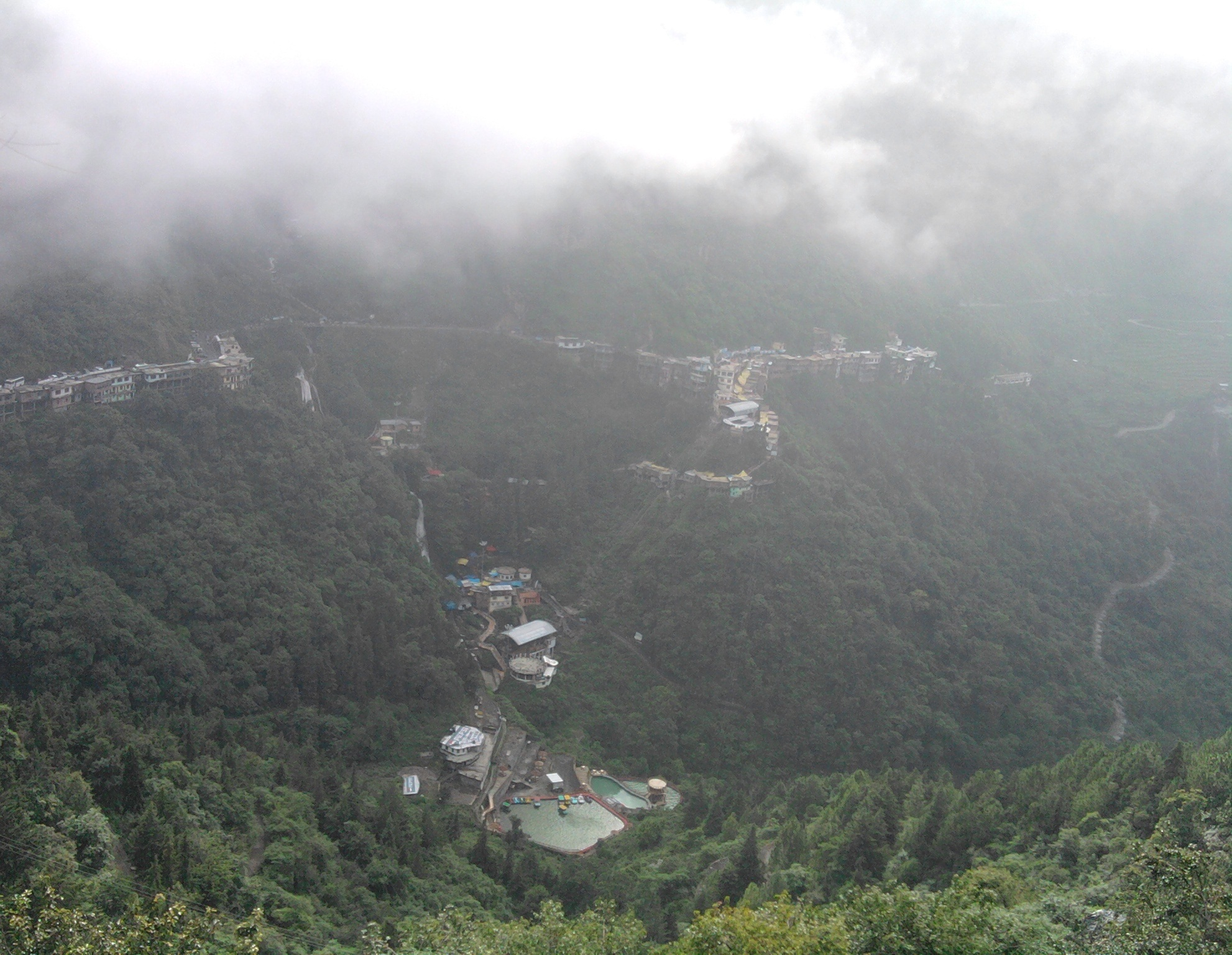 Mussorie view from the top of the hill (can be viewed while traveling on the road downhill)